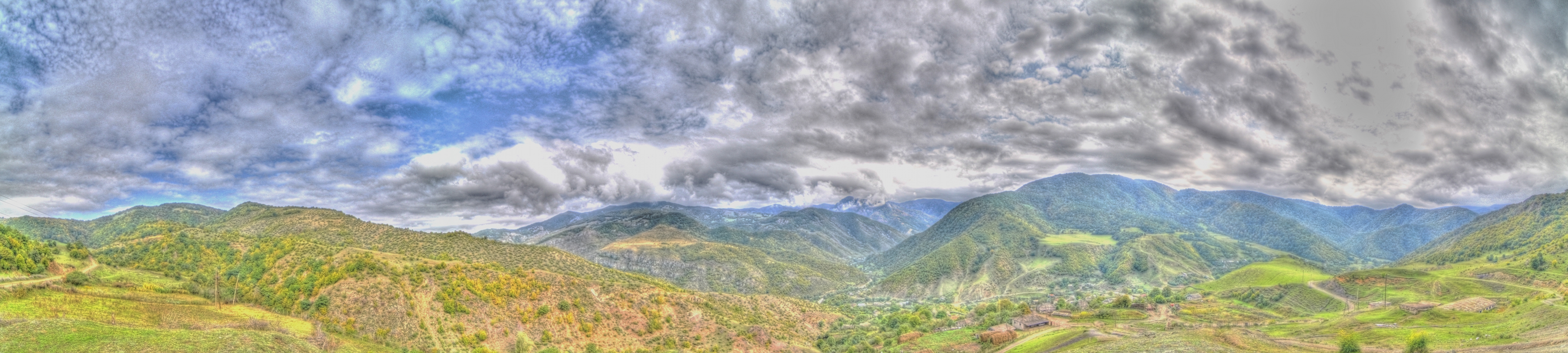 Panorama of Khachardzan village in northeastern Armenia.